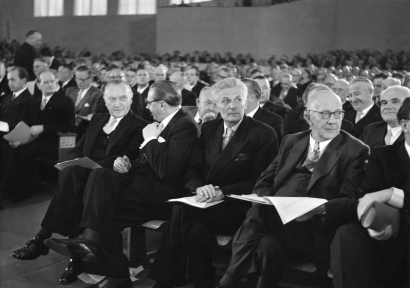 Berlin, Federal Convention electing the President of Germany. Left to right: Chancellor Konrad Adenauer, Exterior Minister Heinrich von Brentano